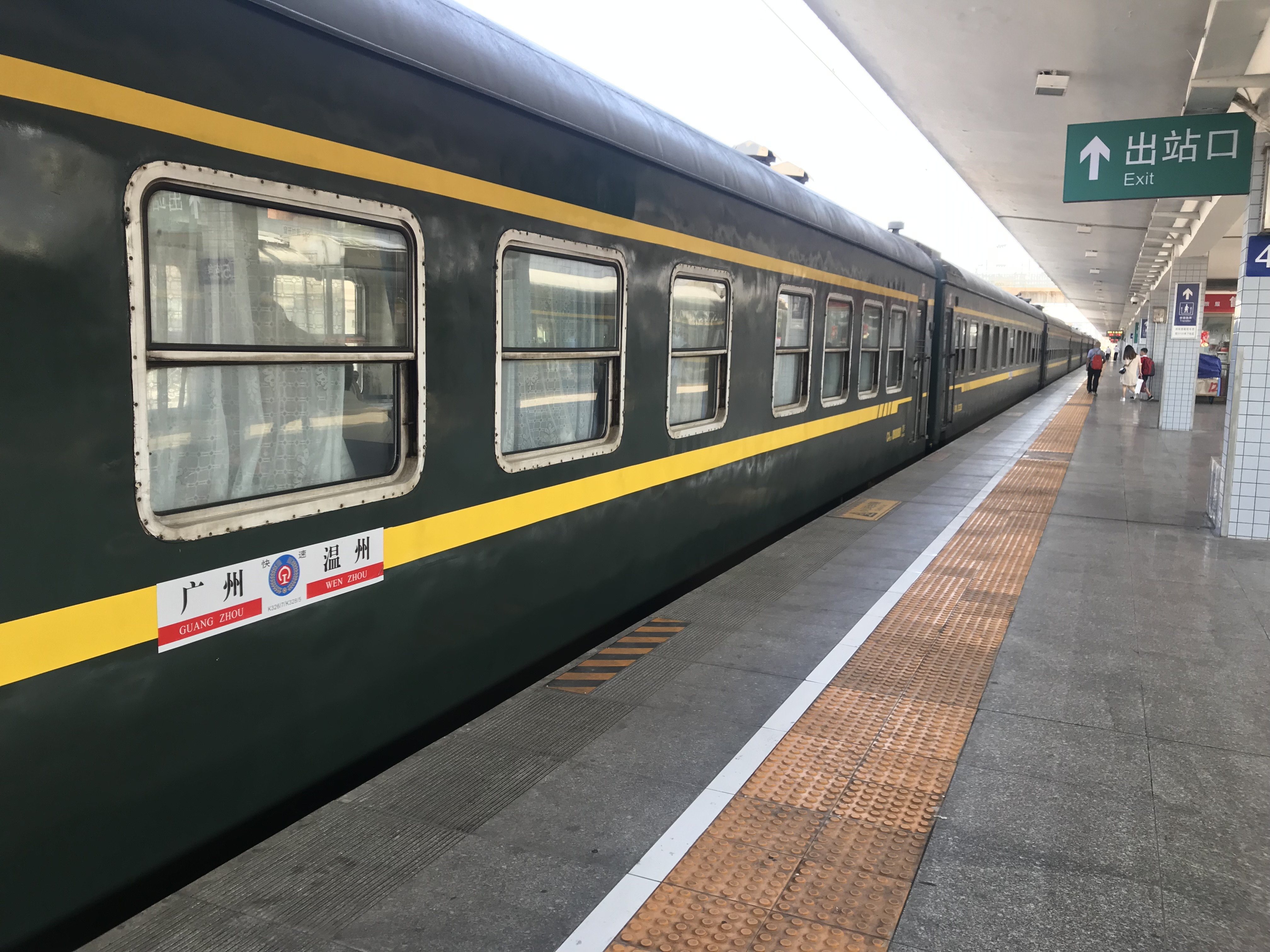 201906 Coaches of K325 at Hengyang Station